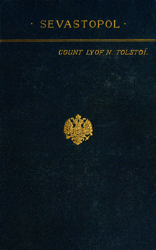 The book cover of Leo Tolstoy's Sevastopol. English edition of 1888.